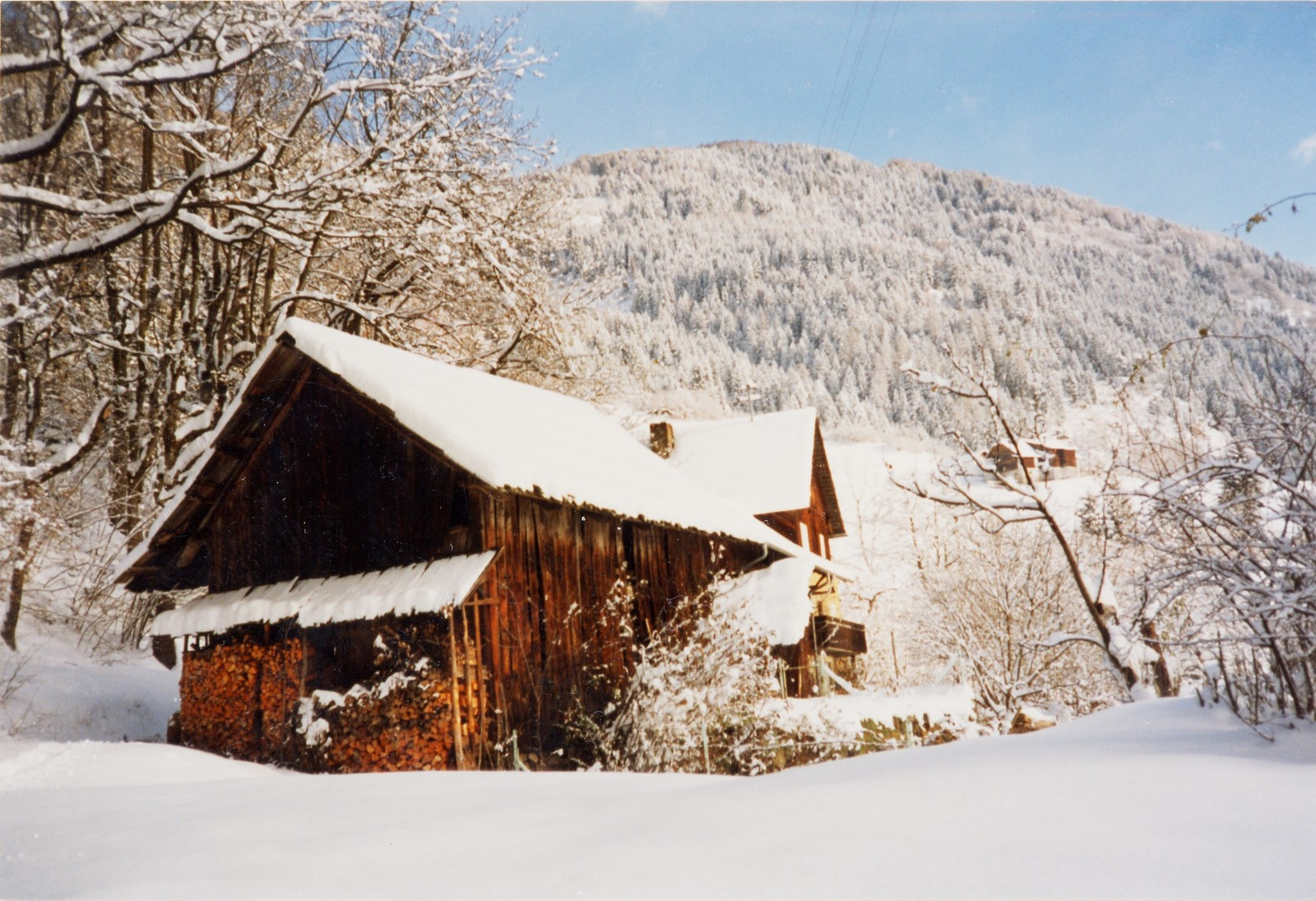 Old farm in Sappl near Lake Millstatt (Millstätter See), district Spittal an der Drau in Carinthia / Austria / European Union. View towards the northeast. In the foreground is a large hut for storage of firewood (wood shed) with stacked firewood.